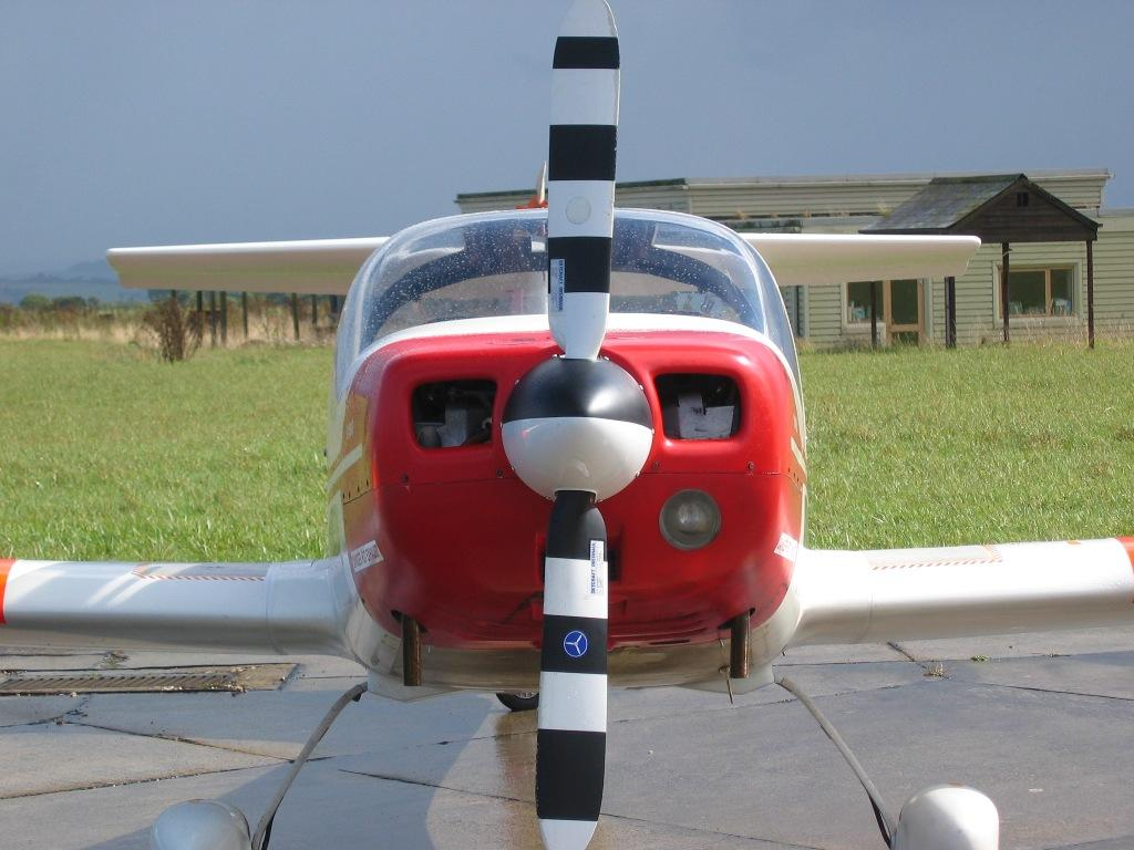 A Grob Vigilant T1 of 637 VGS. Author: Steven Mason.